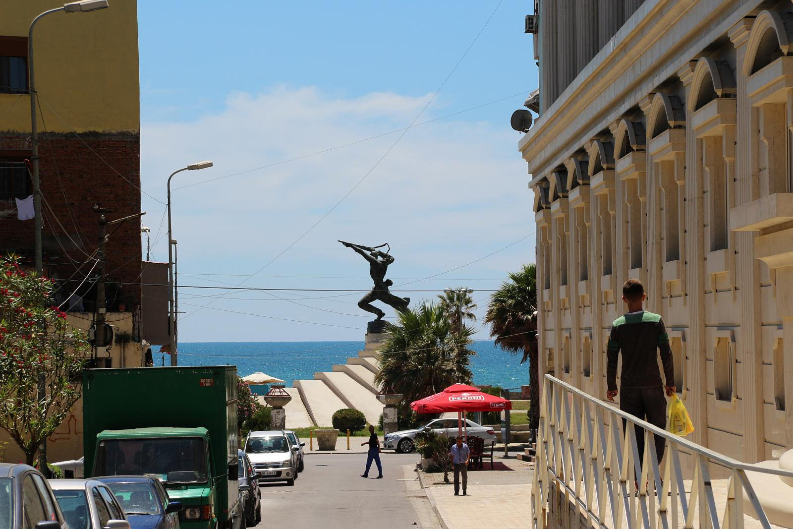 Durres